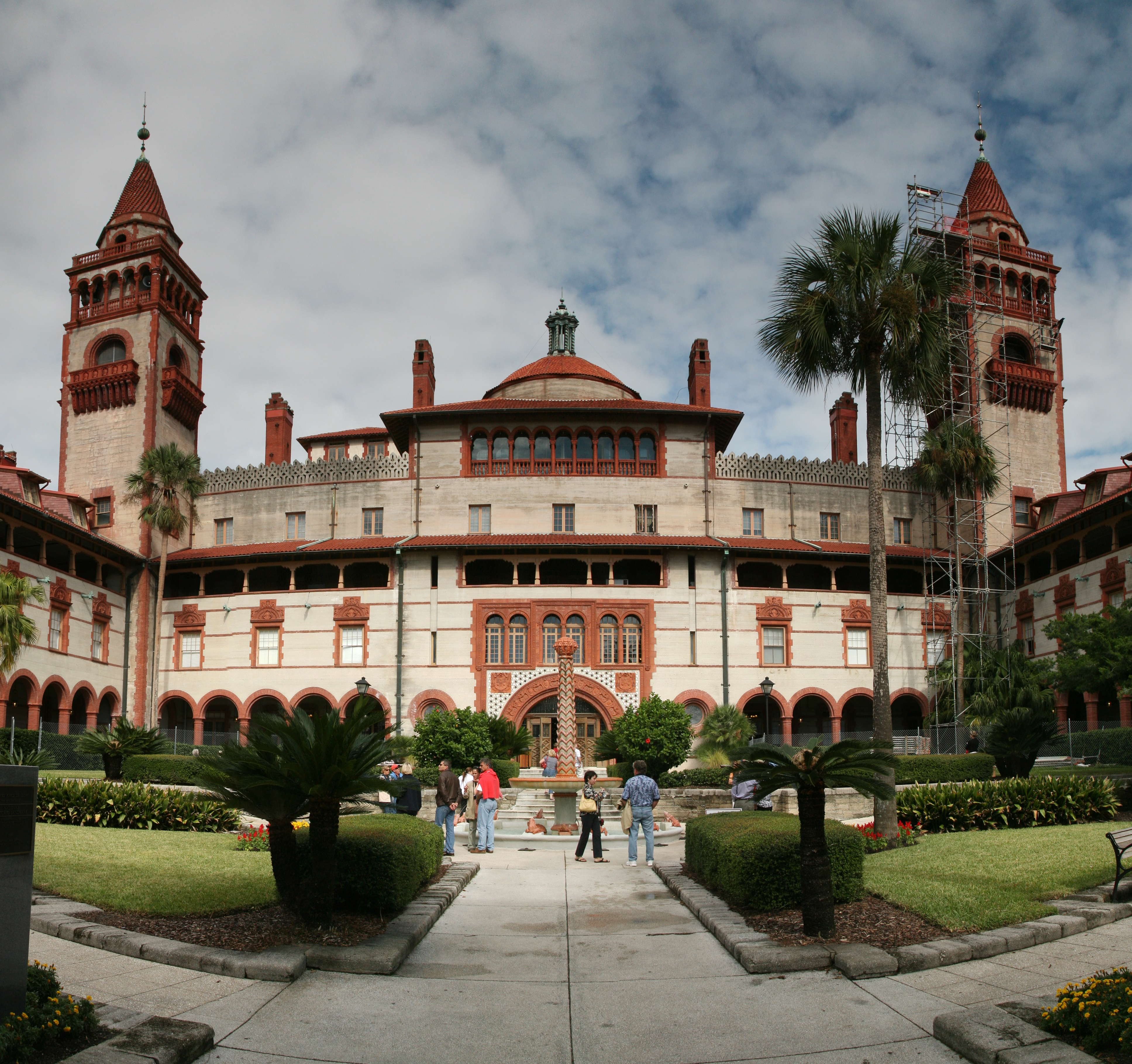 Flagler College in St. augustine, Florida, USA This image was created with Hugin